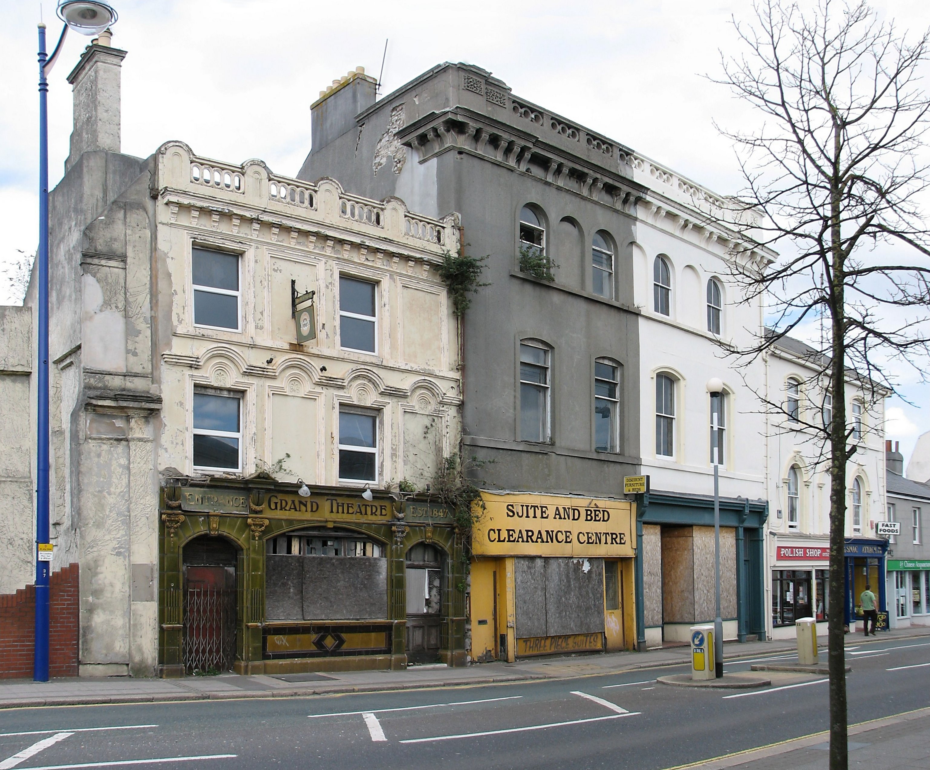 A closed public house and shops, Union Street, Plymouth, Devon, England.